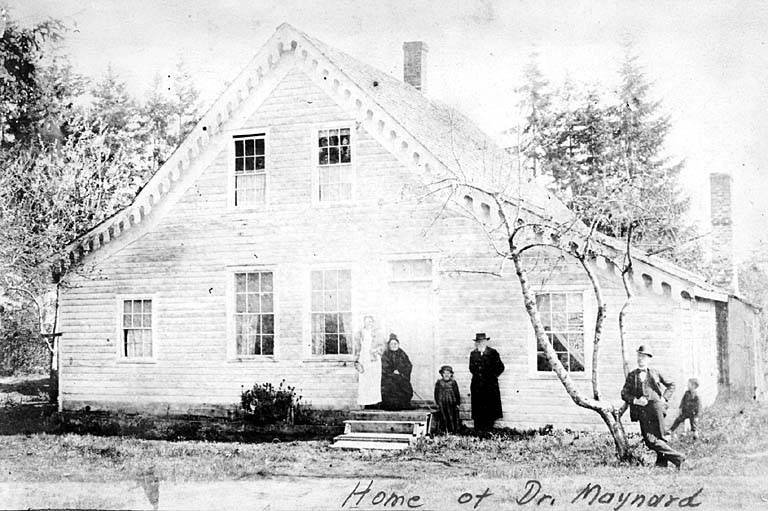 Caption on image: Home of Dr. Maynard Subjects (LCTGM): Maynard, David S. (David Swinson), 1808-1873--Homes & haunts--Washington (State)--Seattle; Families--Washington (State)--Seattle Subjects (LCSH): Dwellings--Washington (State)--Seattle; West Seattle (Seattle, Wash.) Same building in 2009. This building still survives in 2019, though it has lost its right wing and most of its original character. Although moved from its original location and much altered, this house has a claim on being the city's oldest. References